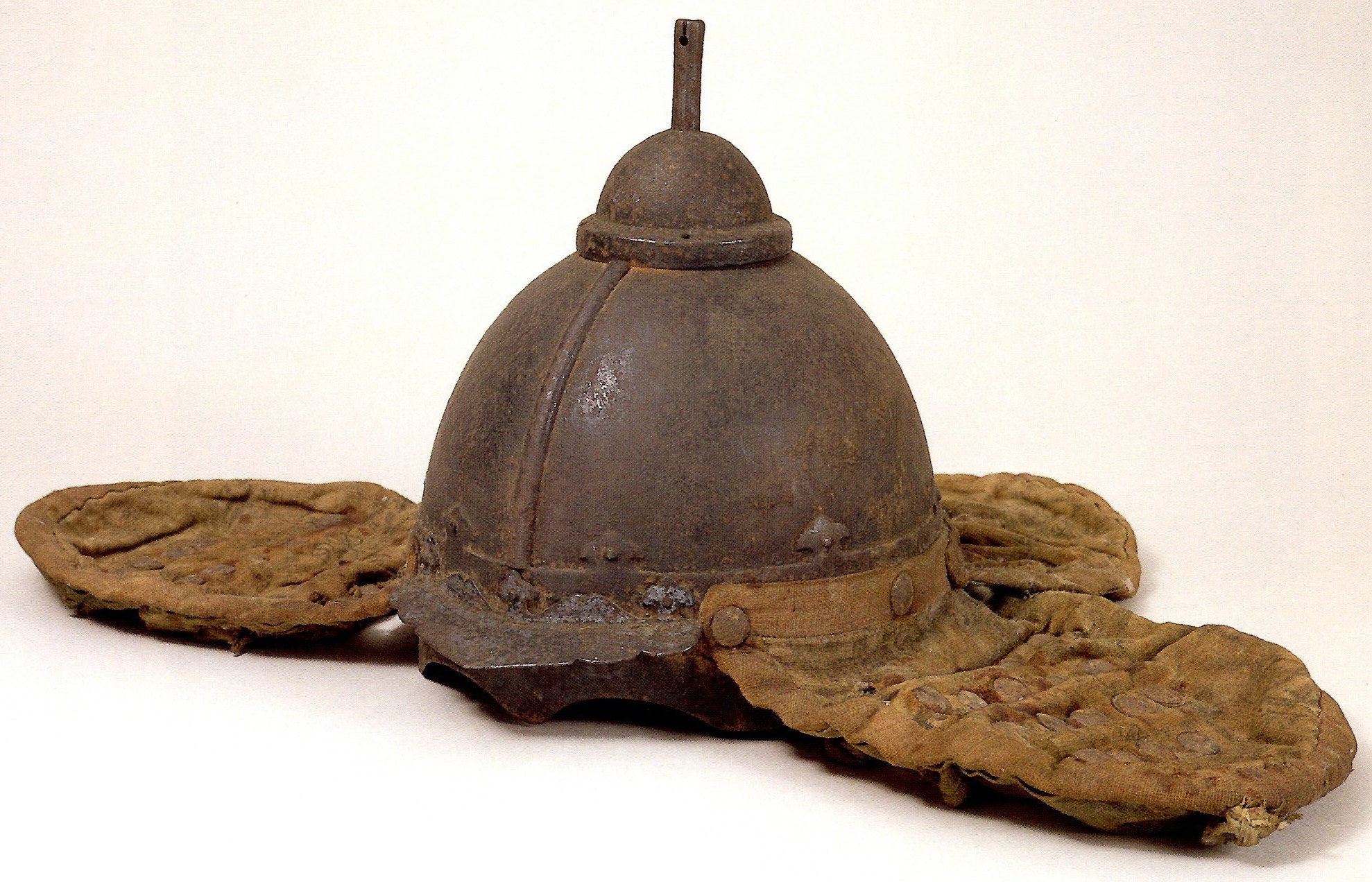 The helmet of a Mongolian army